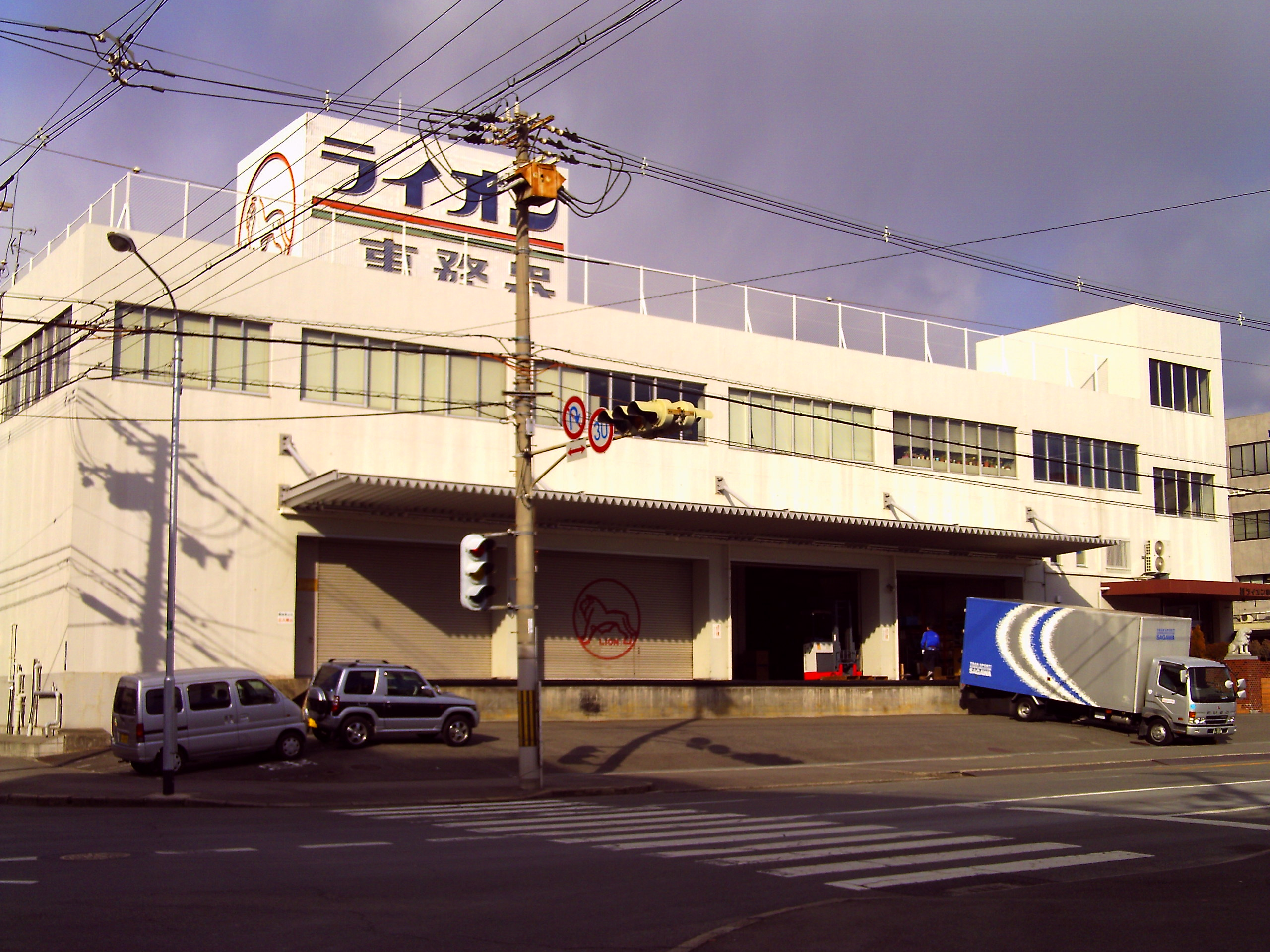 Lion Office Company at Higashi-Osaka